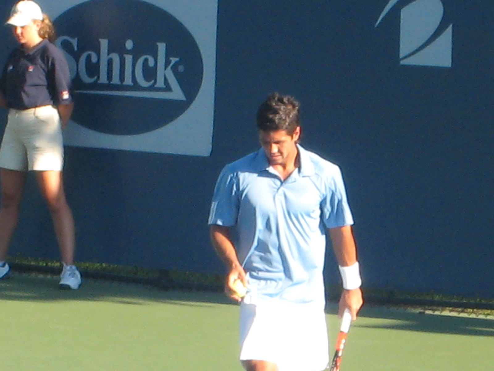 Fernando Verdasco at the 2008 Pilot Pen Tennis tournament in New Haven, Connecticut.